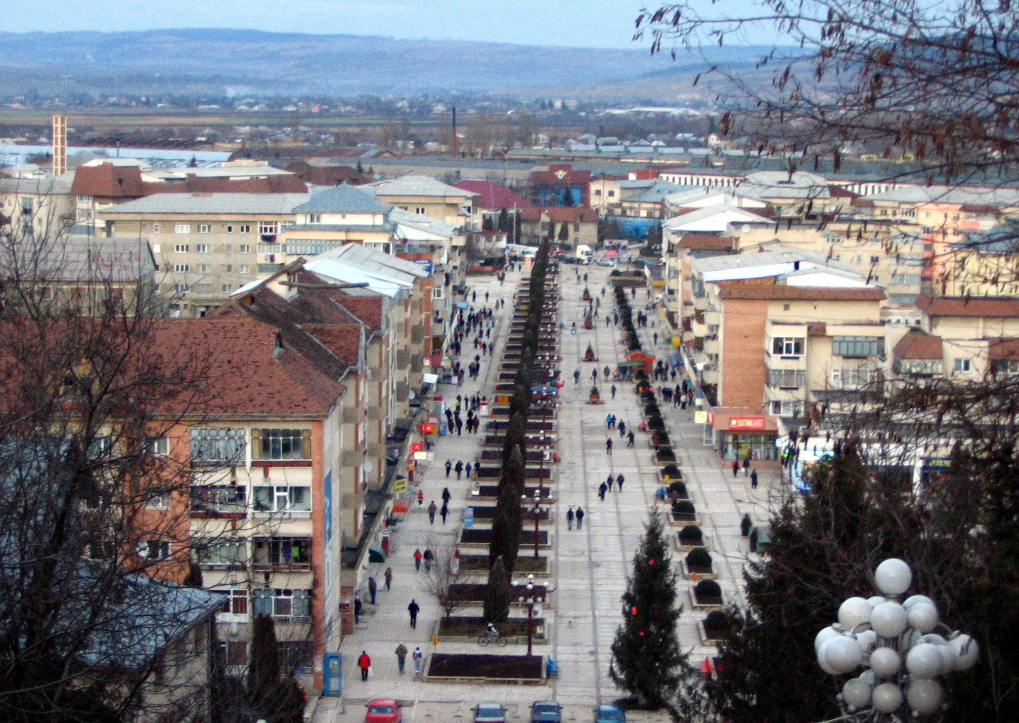 Paşcani, Romania The lower part of the town so-called "the Valley" seen from the stairway that links the uphill area to the valley